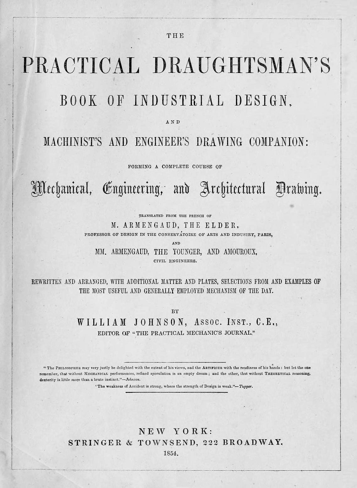 The practical draughtsman's book of industrial design, title page 1854